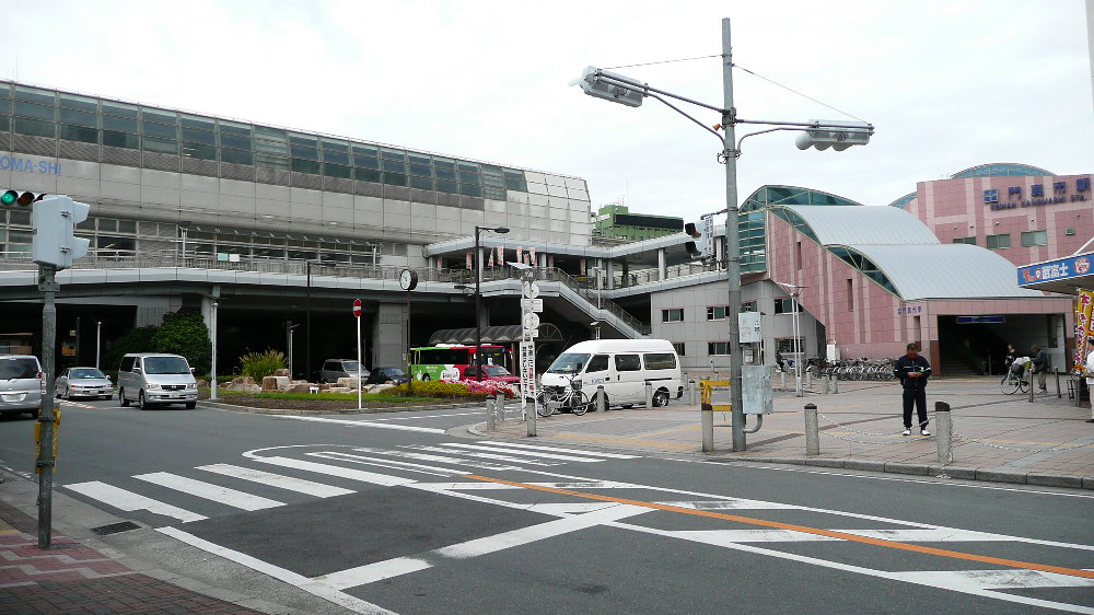 Kadomashi Station of Keihan Electric Railway and Osaka Monorail